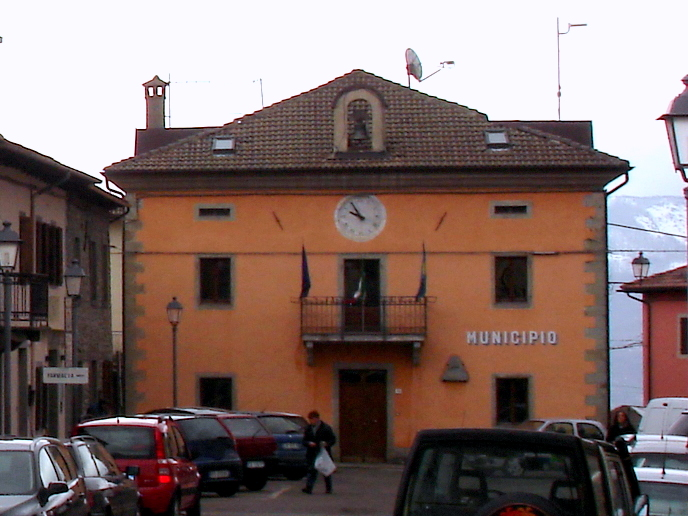 Frassinoro, province of Modena. the Town Hall (Municipio).